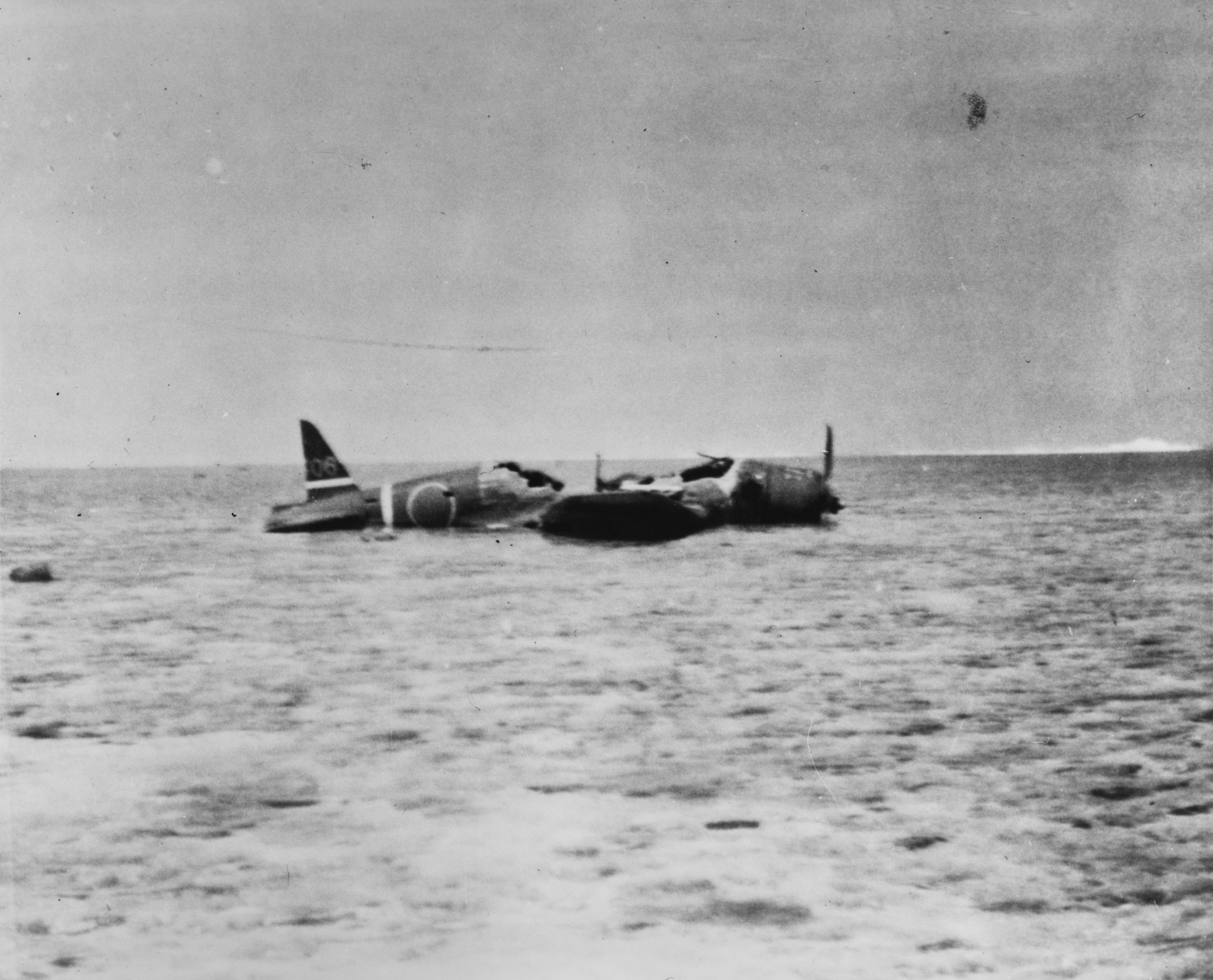 Japanese Type 97 Shipboard Attack Aircraft ("Kate") wrecked on Indispensable Reef, at the time it was inspected by a Patrol Squadron 71 crew, 9 June 1942. The plane is from the Japanese aircraft carrier Shokaku and bears the tail marking "EI-306". The aircraft was one of two that sighted the US Navy ships Neosho (oiler) and Sims (destroyer) on May 7 during the Battle of the Coral Sea. Running low on fuel, the aircraft ditched on the reef and the crew was rescued by a Japanese destroyer the same day.